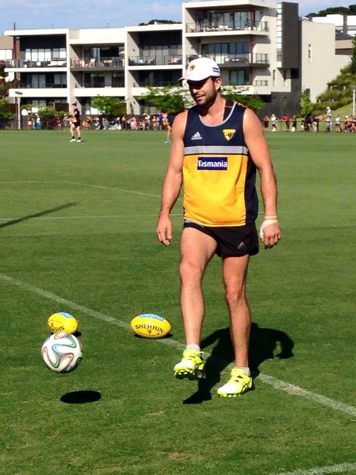 Brian Lake at Hawthorn open training